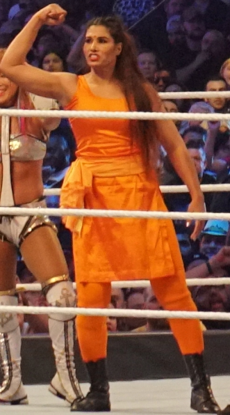 Kavita Devi at WrestleMania 34 in April 8, 2018.